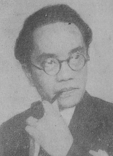 Amir Sjarifuddin, former Indonesian prime minister